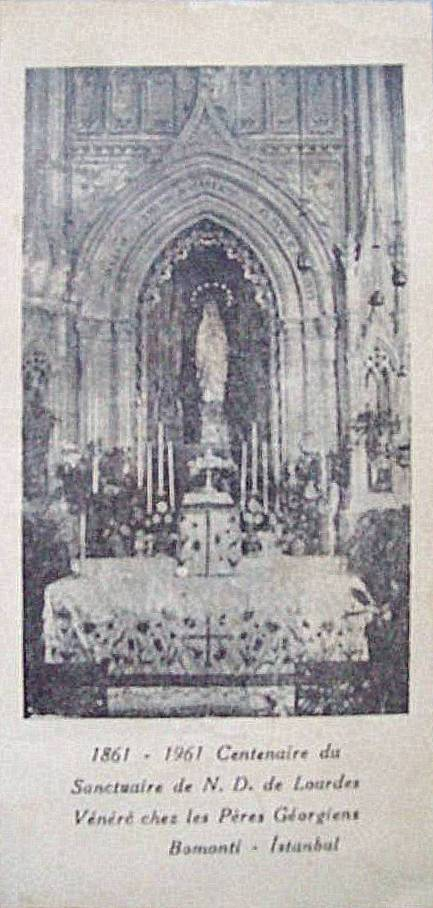 Prayer card (invitation card) of Georgian Church in Bomonti, Istanbul